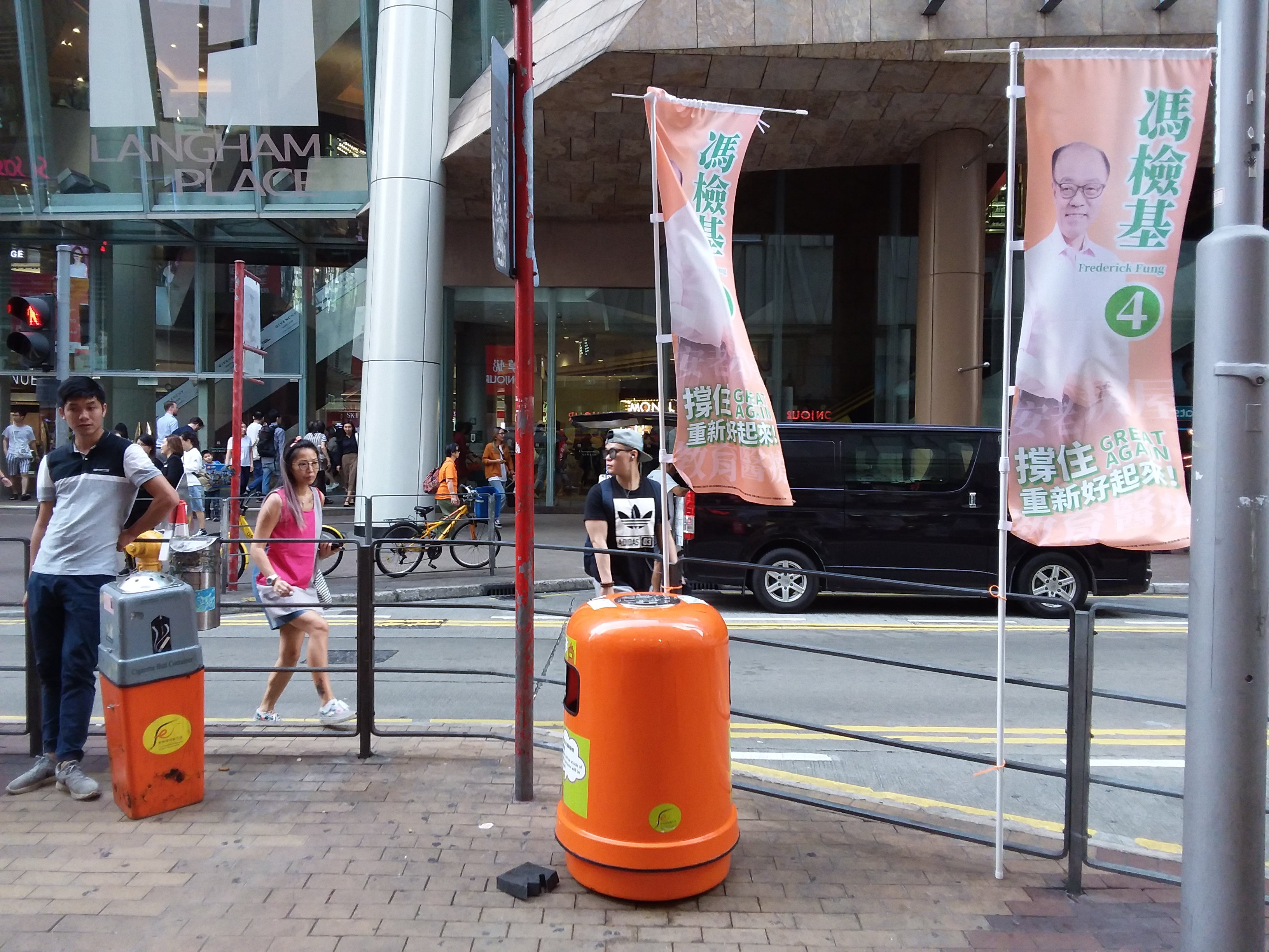 HK MK 旺角 Mong Kok Shanghai Street November 2018 SSG Fung Kin-kee, Frederick flags